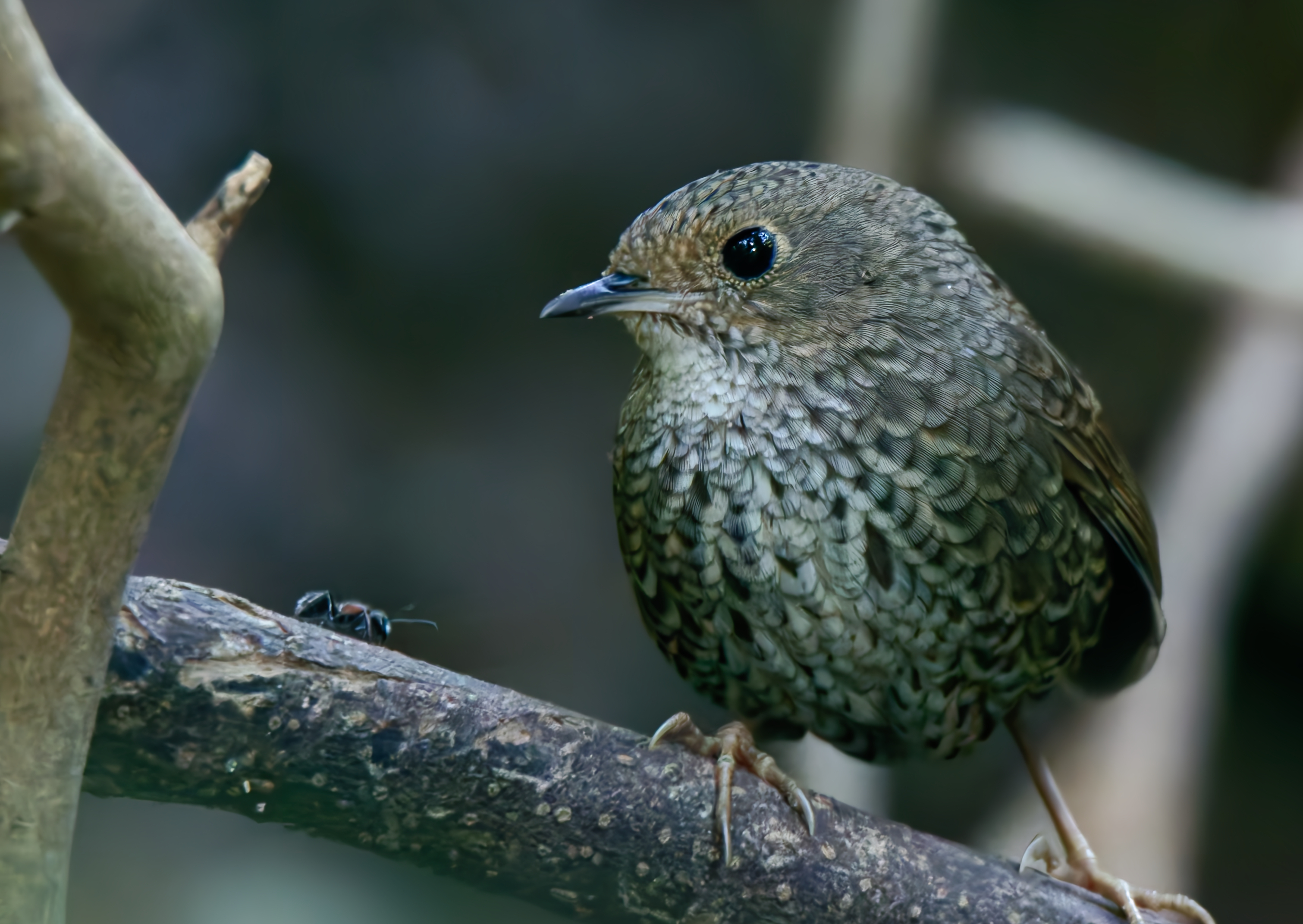 Nepal Wren-Babbler (Pnoepyga immaculata), Dehradun, Uttarakhand, India